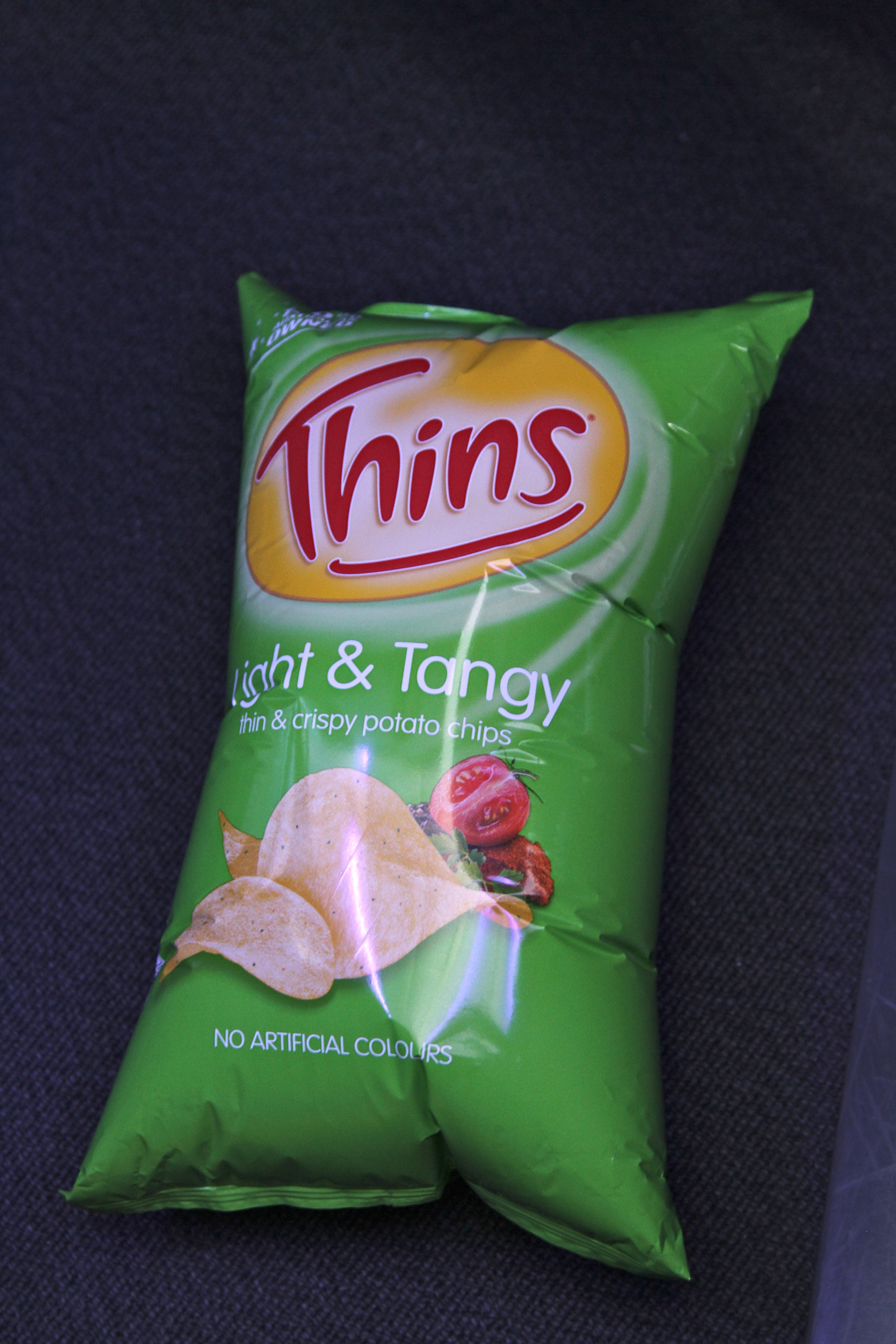 The reduced air pressure in the cabin of a modern aeroplane has resulted in the volume of the packet increasing.